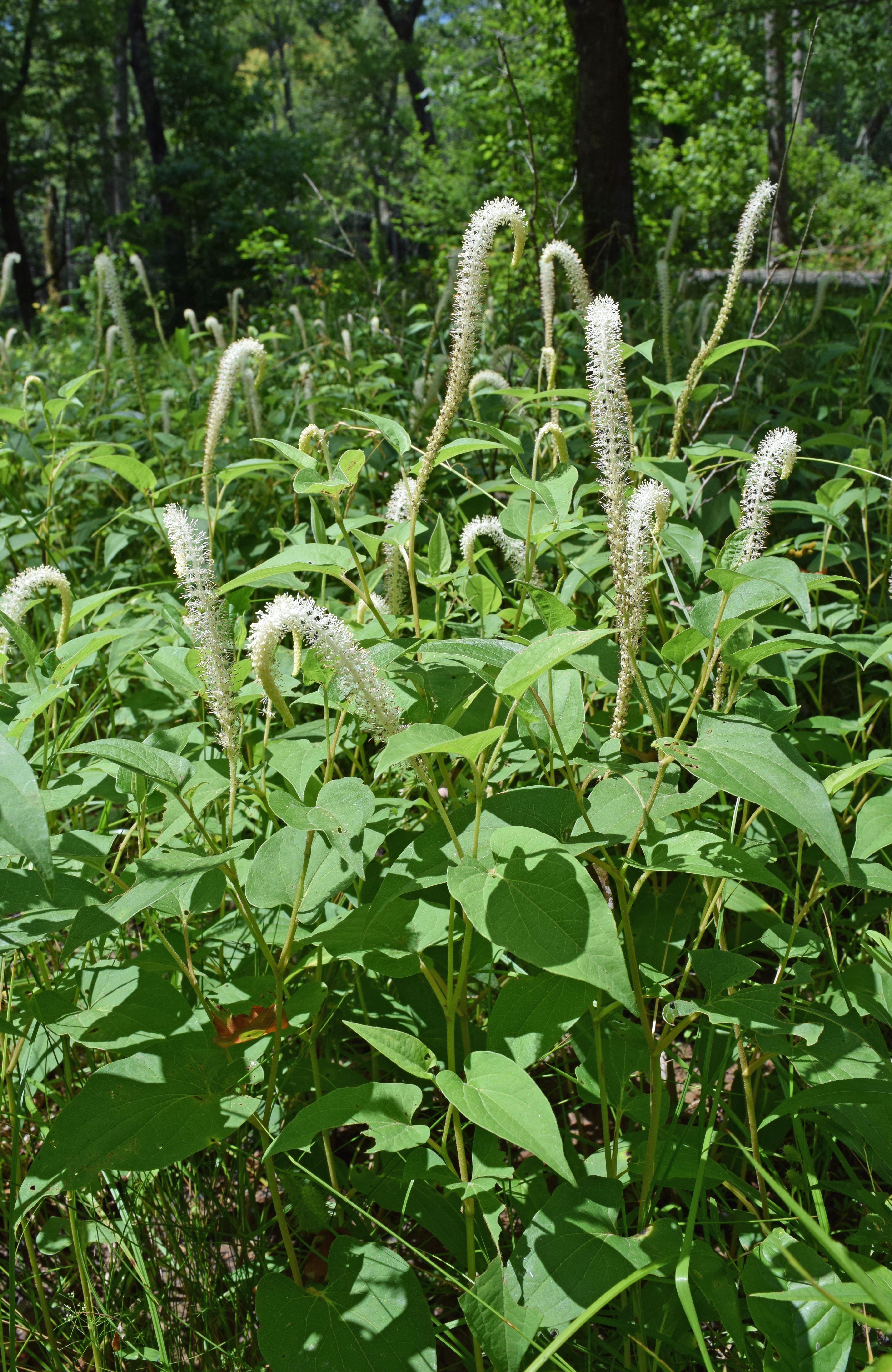 Saururus cernuus (lizard's tail) blooming at the University of Mississippi Field Station.